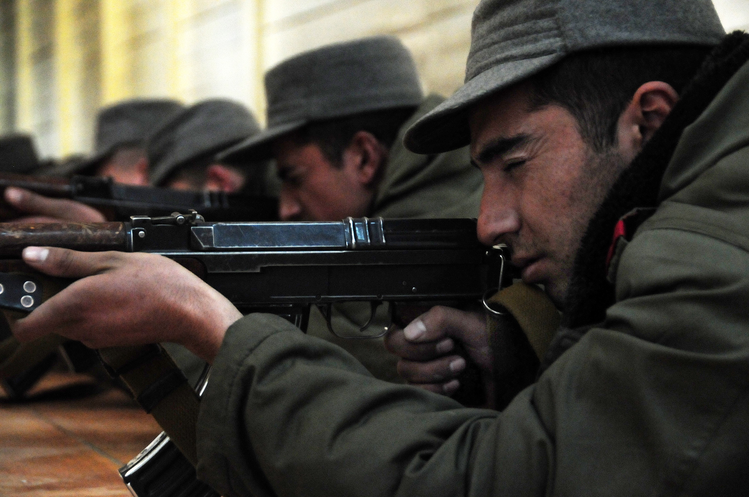 100117-F-1020B-158 Kabul - Afghan National Police Academy (ANPA) cadets learn how to shoot VZ 58 rifles at a weapons training class. Traditional ANPA training is three years, but the academy has recently created an accelerated, six-month course due to high demand for more law enforcement officers throughout Afghanistan. The academy trains men and women from more than 34 provinces. (U.S. Air Force photo by Staff Sgt. Sarah Brown/RELEASED)